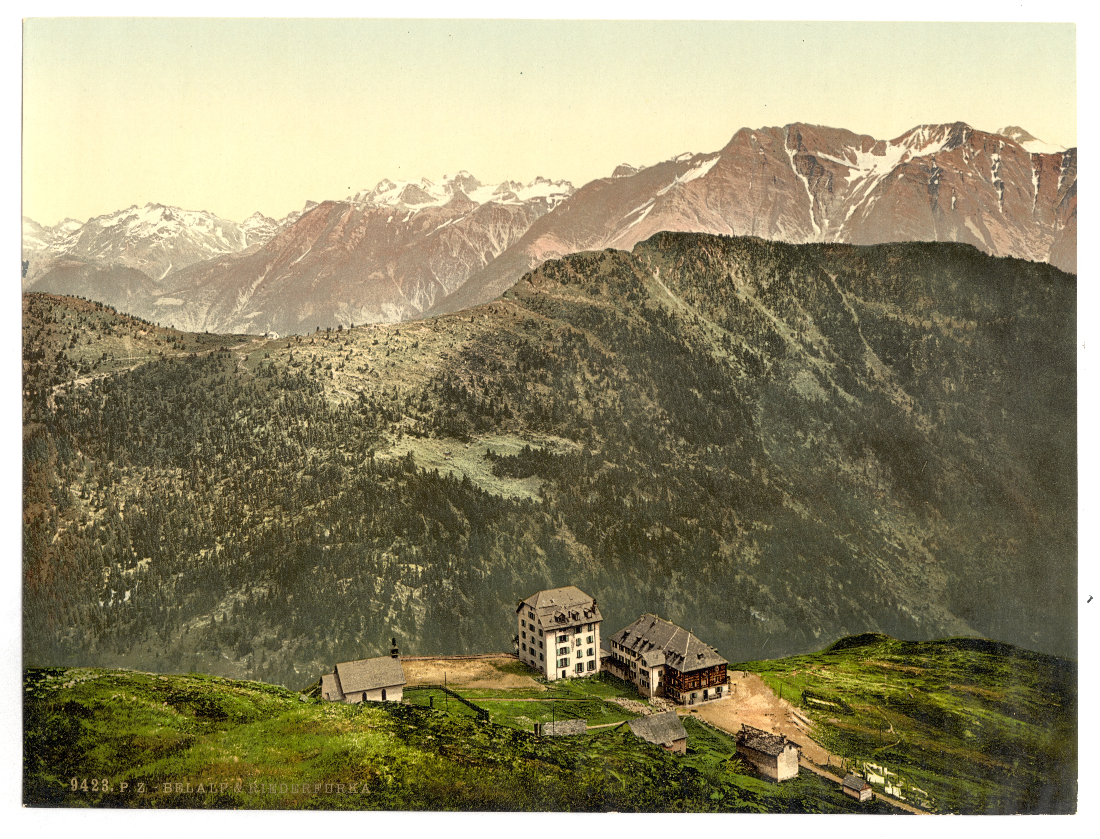 Forms part of: Views of Switzerland in the Photochrom print collection.; Title from the Detroit Publishing Co., Catalogue J-foreign section, Detroit, Mich. : Detroit Publishing Company, 1905.; Print no. "9423".